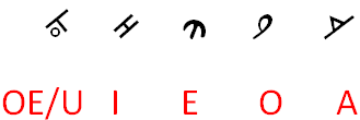 Syriac vows